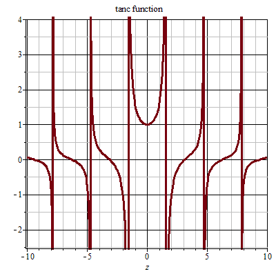 Tanc 2D plot